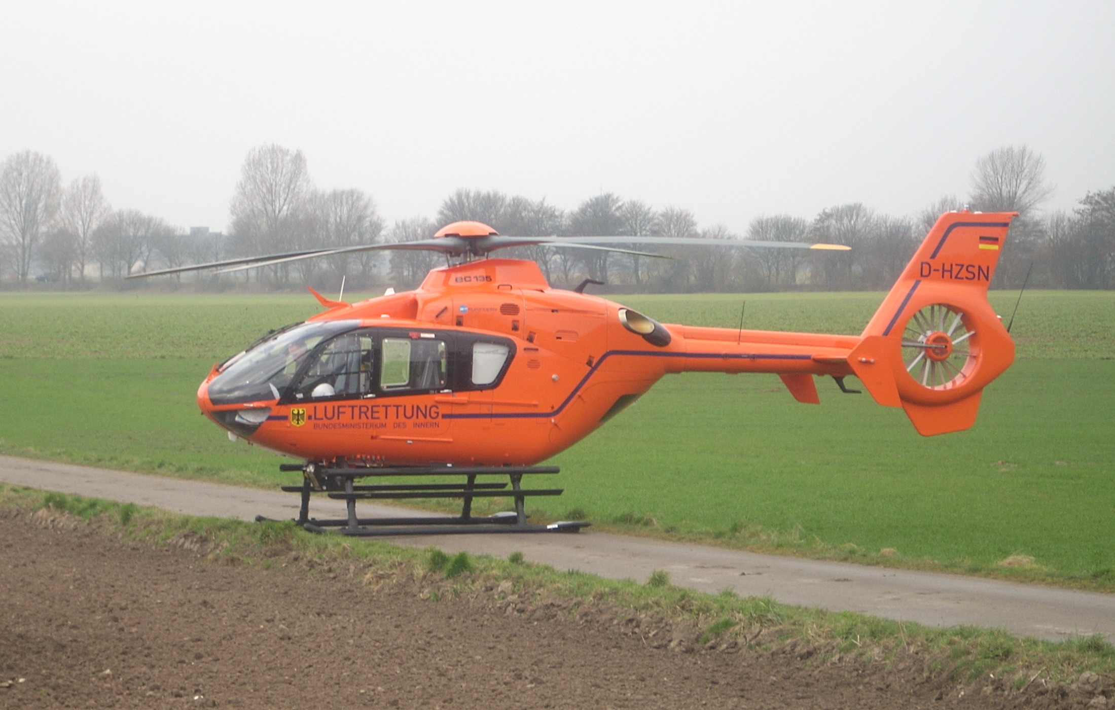 The new rescue helicopter "Christoph 9" (Duisburg, Germany)